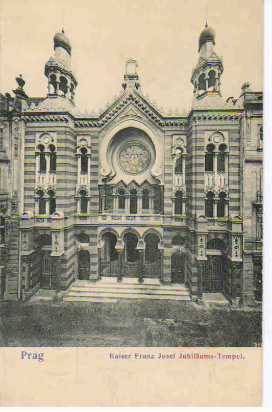 Jubilee Synagogue on an old postacrd